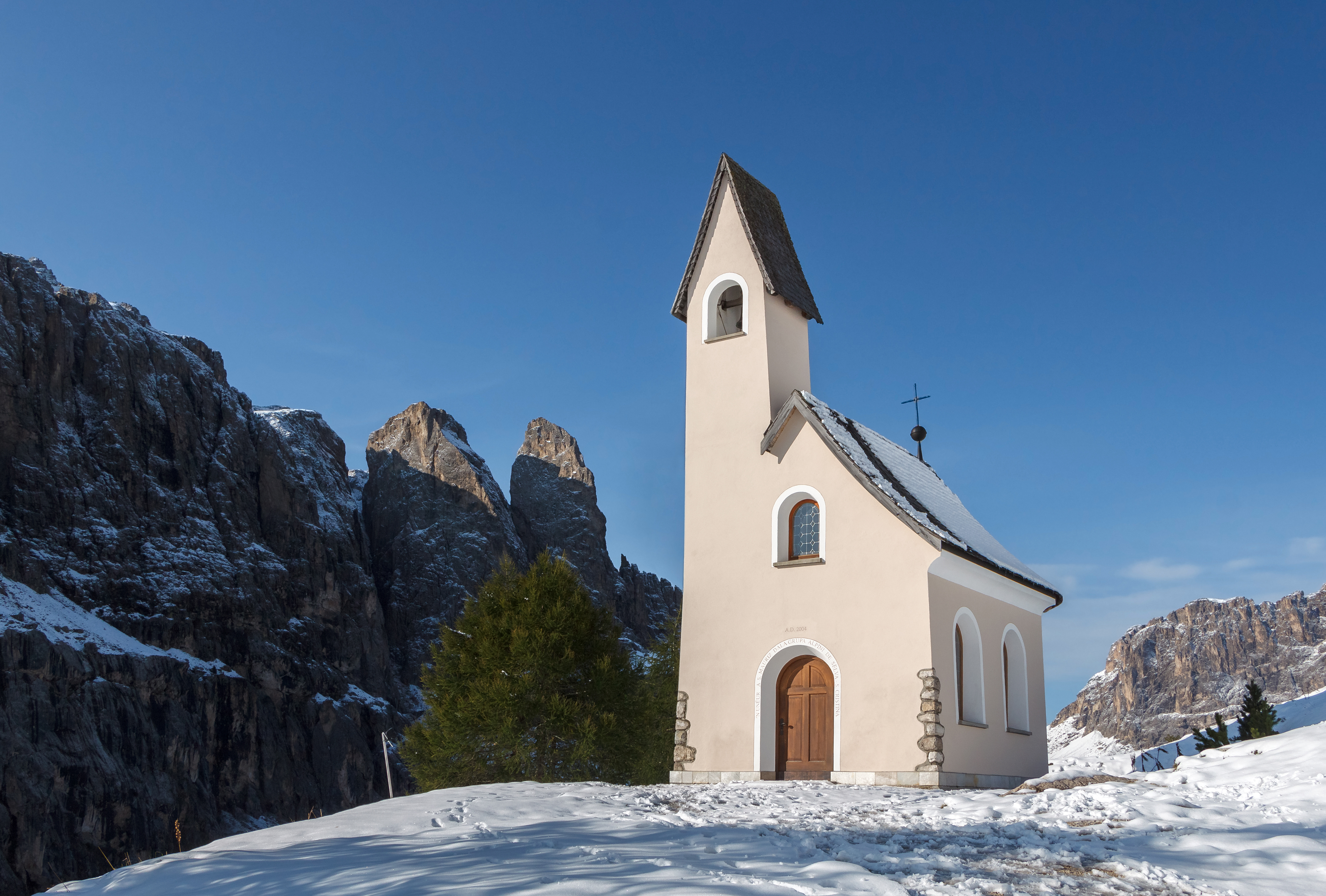 Capella di San Maurizio at the Gardena Pass, South Tyrol, Italy.